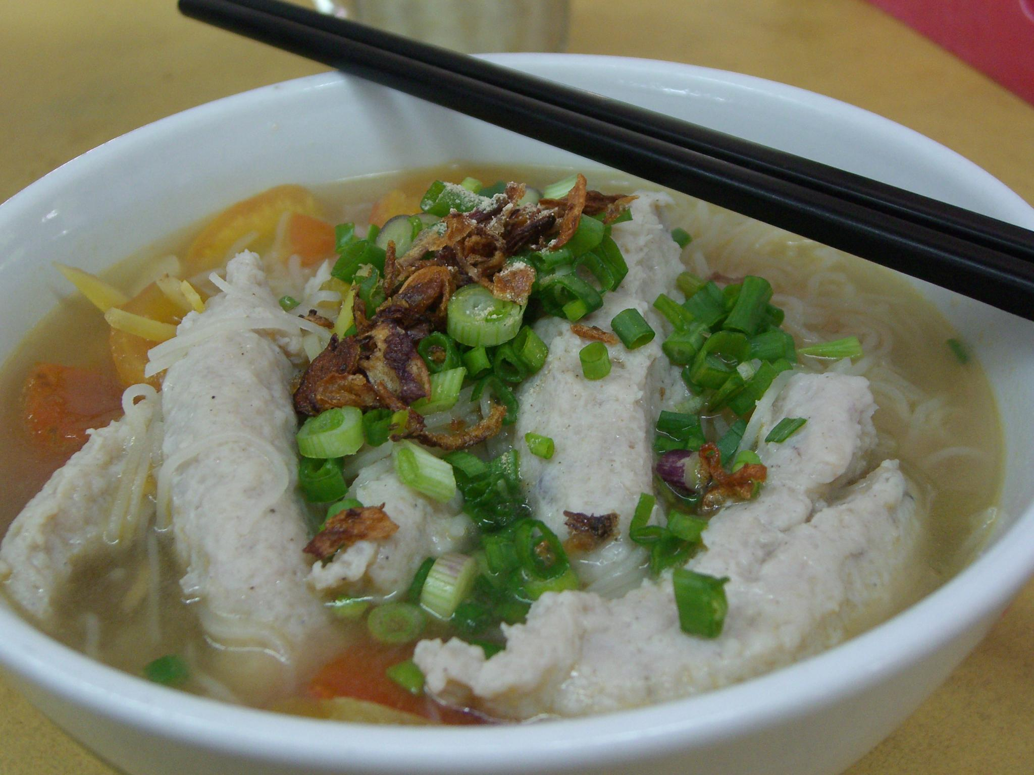 Fish Paste Noodle